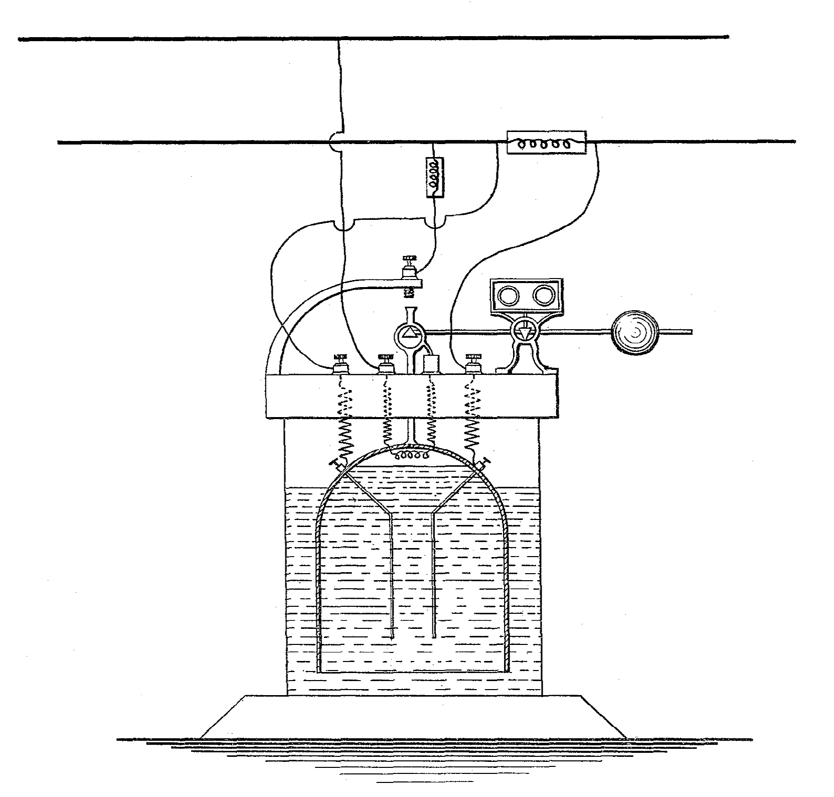 U.S. Patent 248,565 - Thomas Edison - Webermeter (water splitting)